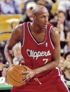 Los Angeles Clippers Lamar Odom